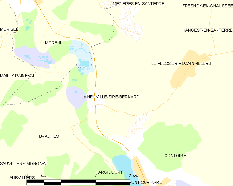 Map of French municipality La Neuville-Sire-Bernard